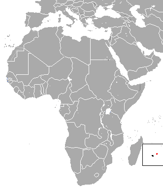 Mauritian Flying Fox (Pteropus niger) range (red — extant, black — extinct)